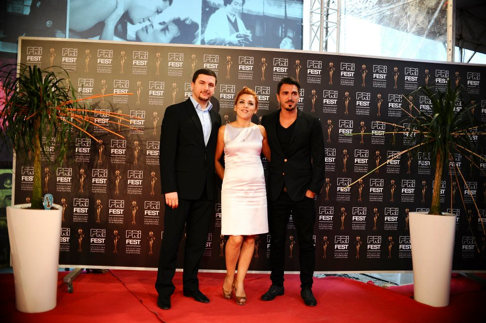 Vjosa Berisha, PriFest founder, Memli Krasniqi, Minister of Culture, Youth and Sport, Blerim Destani, actor